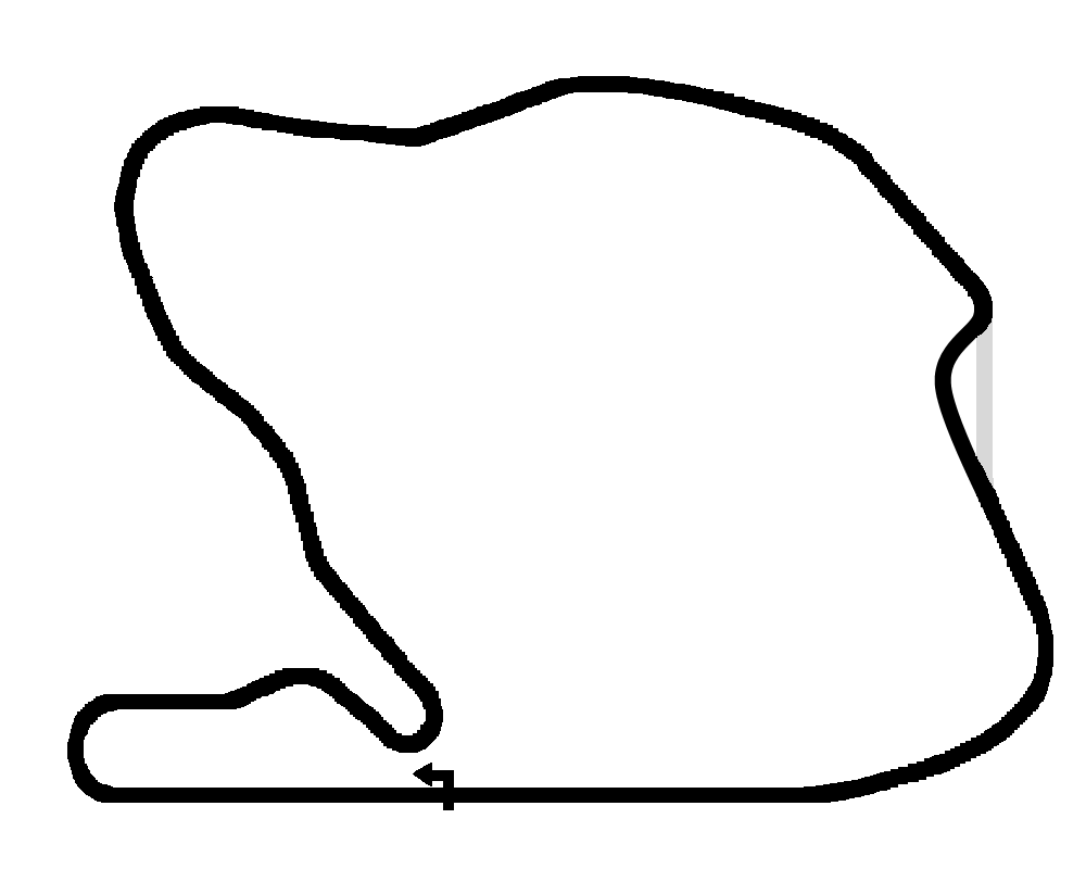 Circuit Park Zandvoort track layout from 1973 to 1979 (Panoramabocht chicane added), without turn names.